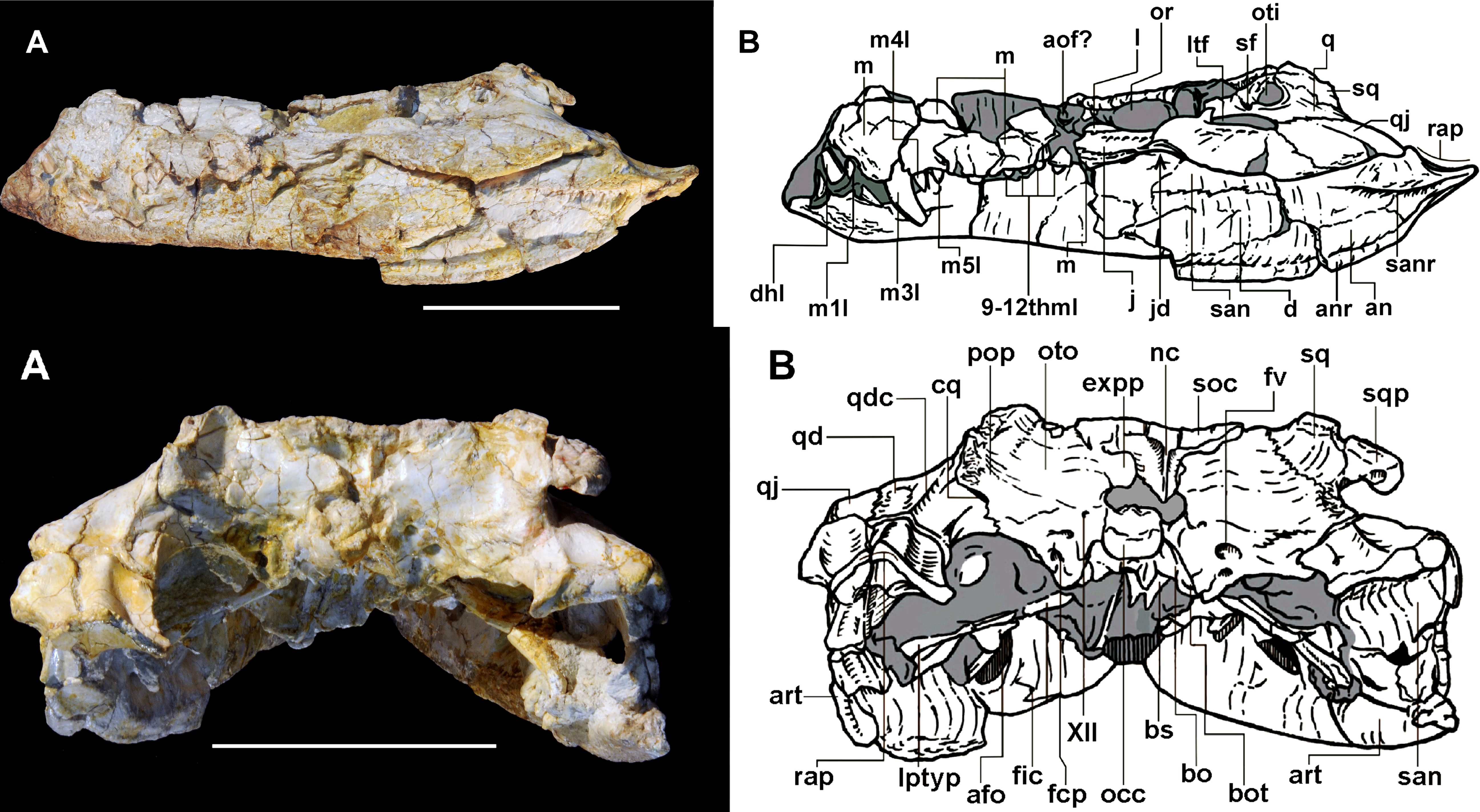 Sahitisuchus fluminensis gen. et sp. nov. (MCT 1730-R), in left lateral and occipital view. A, photo; B, illustration. For abbreviations see Figure 1. Scale bar: 100 mm.